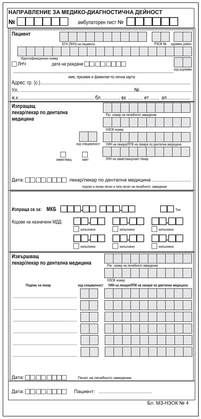 Form #4 of NHIF